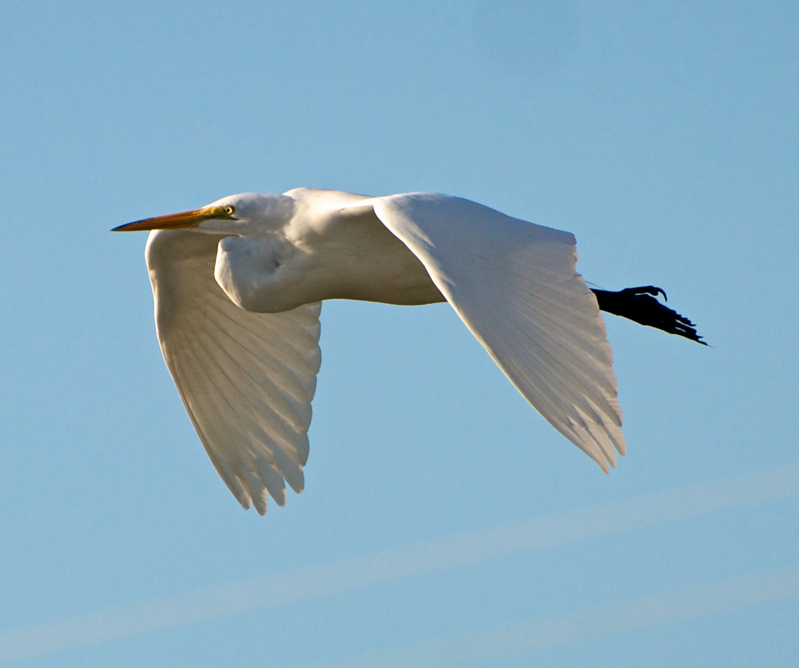 A Great Egret in flight at Palo Alto Baylands, San Francisco Bay, California, USA.